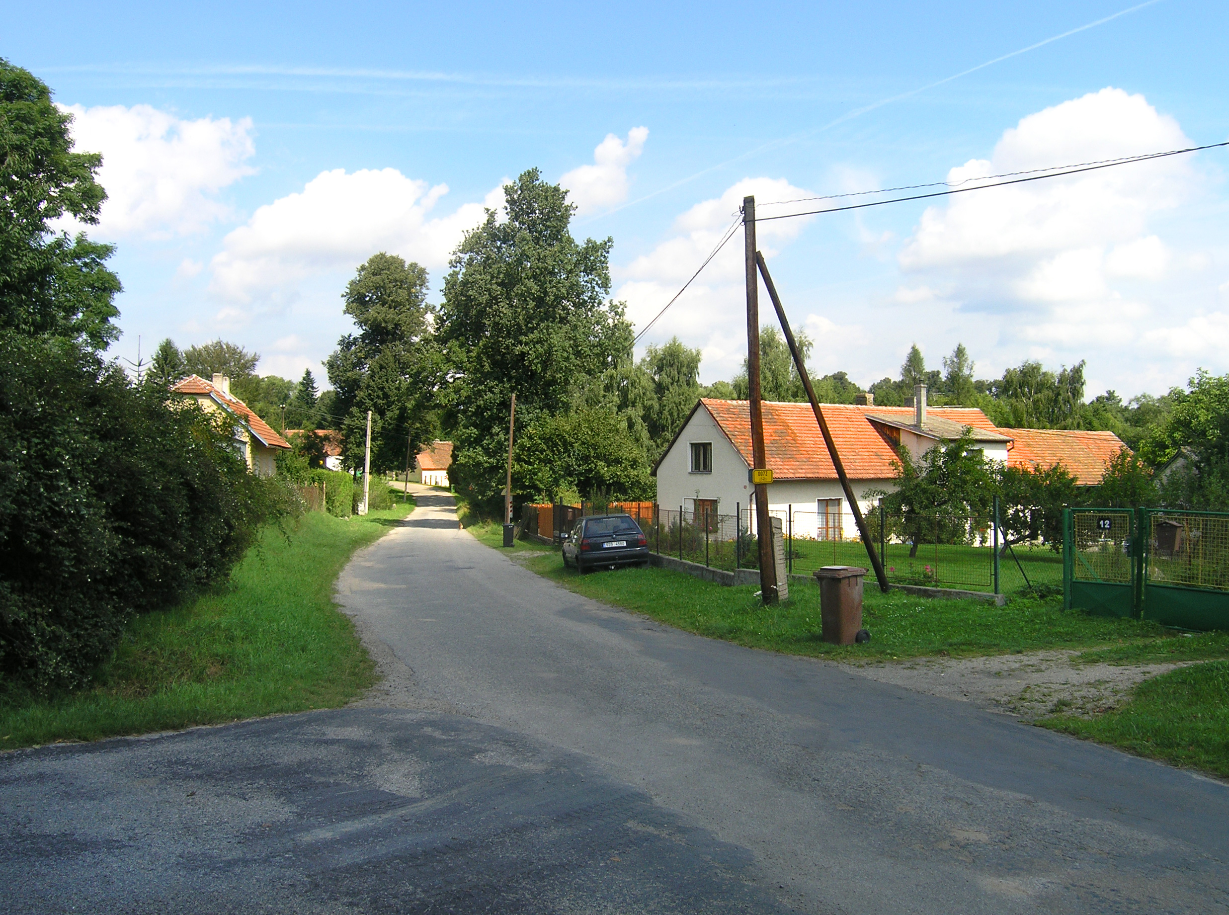 South part of Lísek, part of Postupice village, Czech Republic